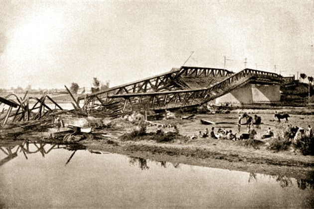 Bridge over the Prut River near Chernivtsi, blowed up in 1914 by general Munzel.